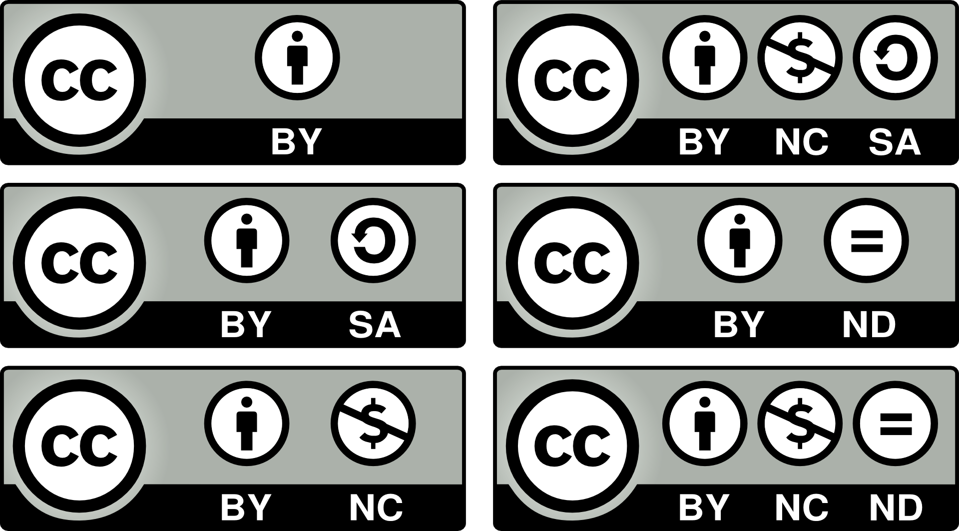 A chart of CC symbols